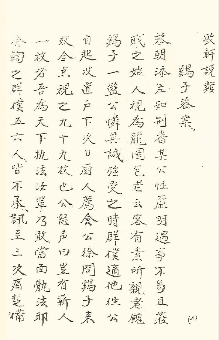 A manuscript of "Man Hien Thuyet Loai" handwritten in Early 20th Century.